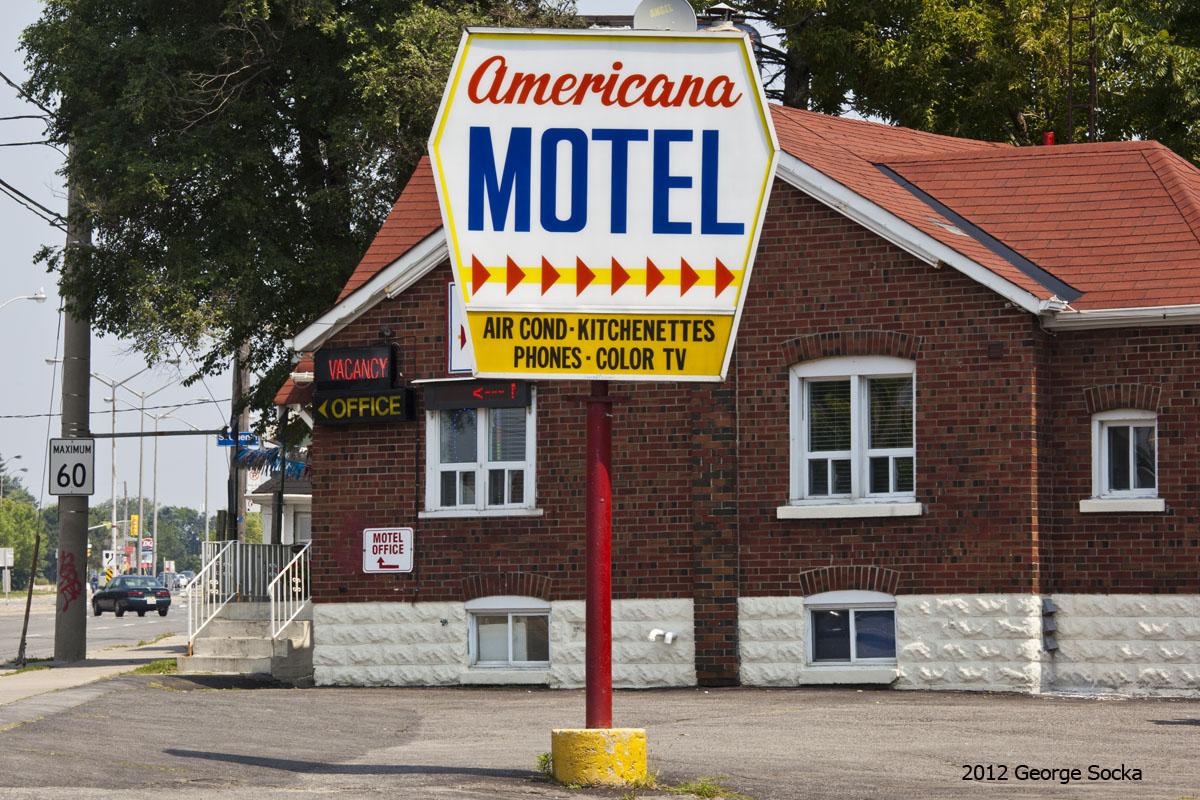 Scarboro is the last town ( when it was its own town and not part of the City of Toronto) on the road from Montréal to Toronto. And it was the place to stop for the night before heading into the Big Smoke. And the place to rest for motorists was the motel. I can remember when the street was one motel after another. Even now there are still about 12 within a few blocks. I also remember when there was anything other than color TVs. Does this sign mean that some other places still offer only Black and White television? And note the spelling of color to entice American travellers.